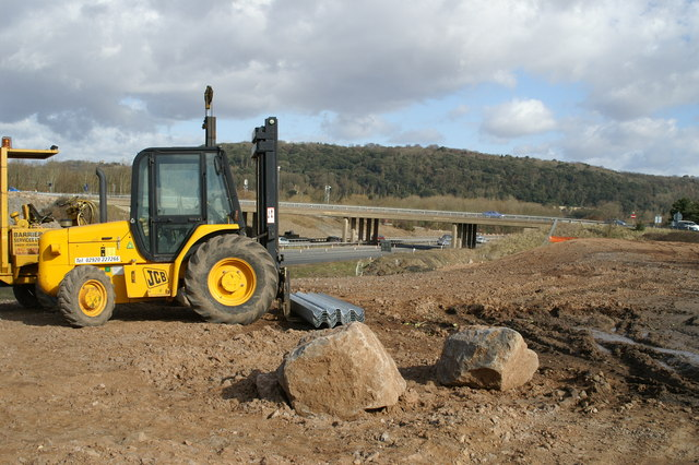 Yellow JCB forklift. Road alterations at junction 20 of M5